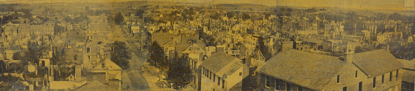 View of the ruins of Chambersburg by Charles L. Lochman, Pennsylvania Historic and Museum Comission